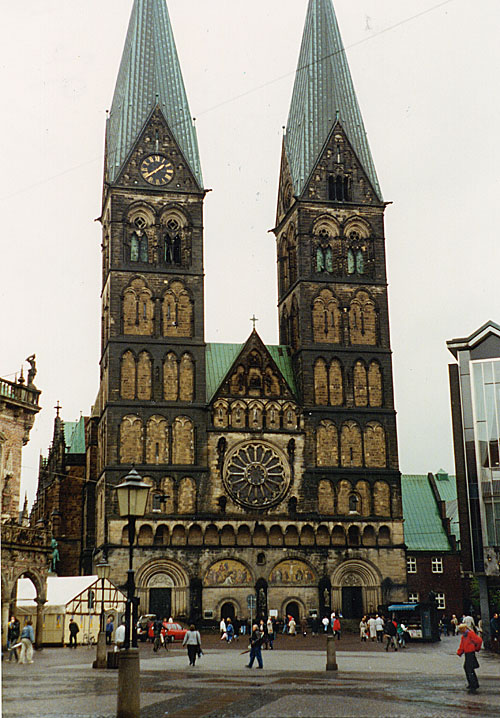 Bremen cathedral (St. Petri). Taken by Adrian Pingstone in 1990 and released to the public domain.